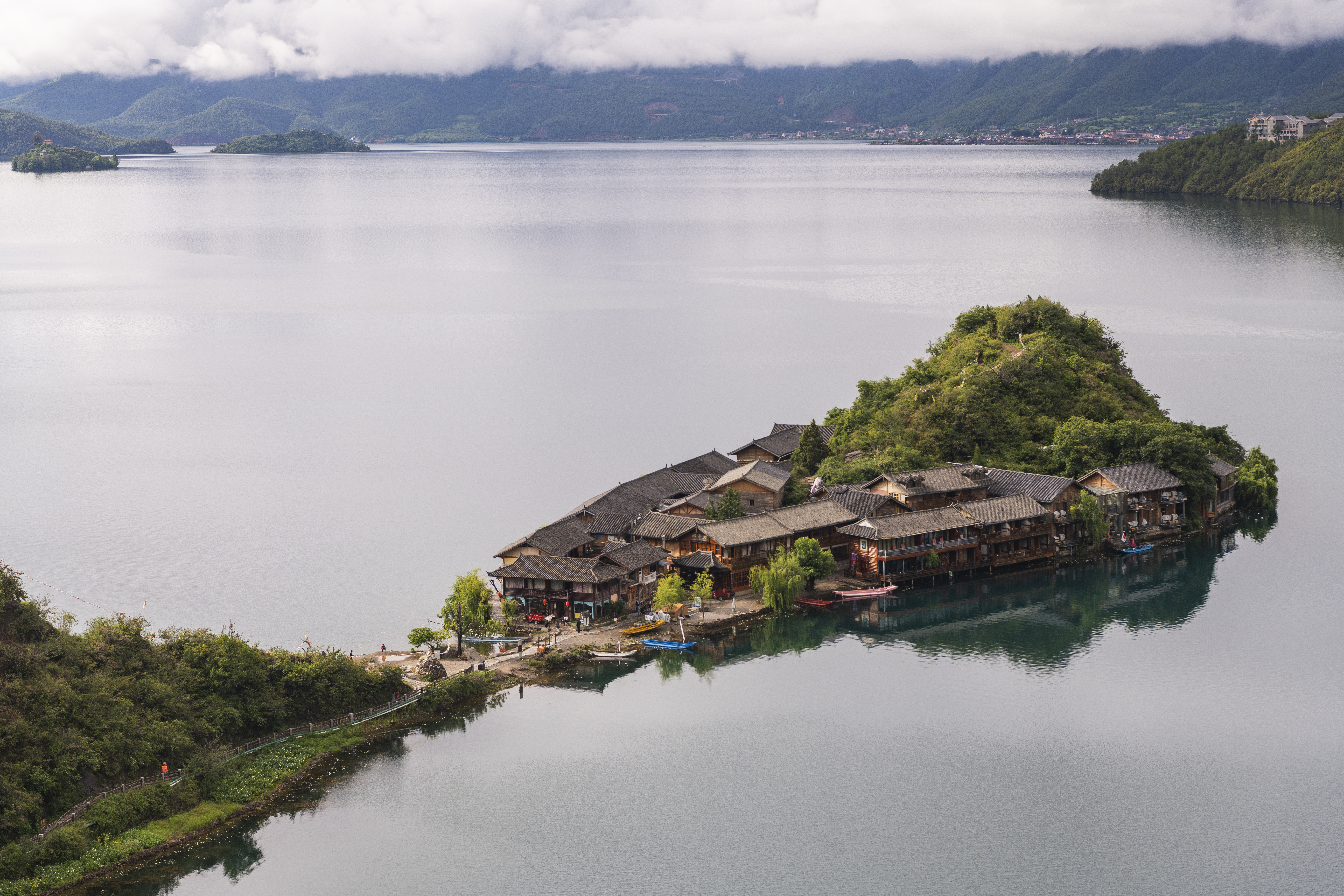 lugu lake lige village